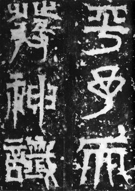 Inscription by a Divine Prophecy "天发神谶碑".